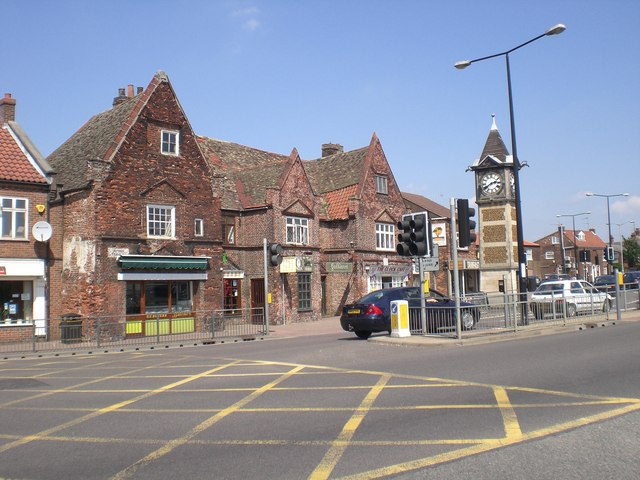 Bishop's Terrace, Gaywood Mid C16 building at the busy complex of road junctions in the centre of Gaywood. Something interesting to look at as you wait at the traffic lights on the way into King's Lynn. Grade II listed - for more information.